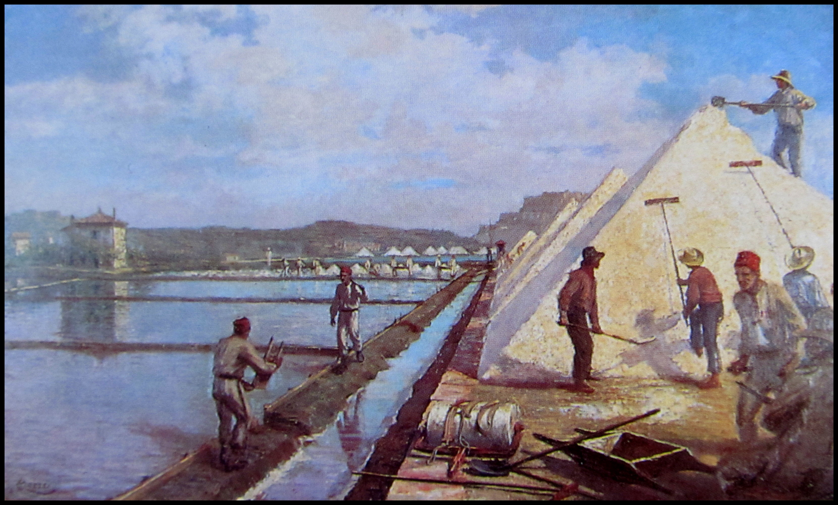 elba island